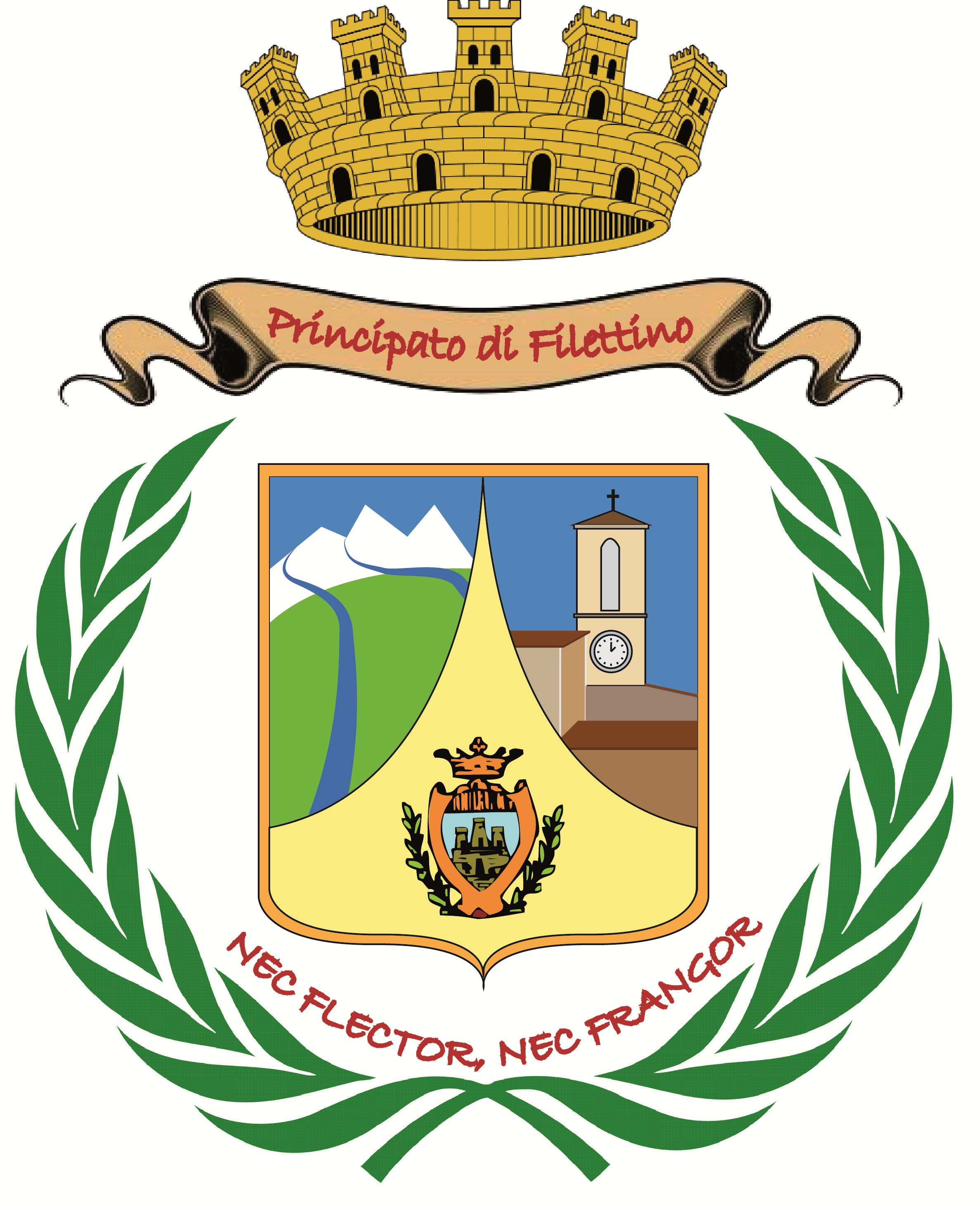 Principality of Filettino Coat of Arms